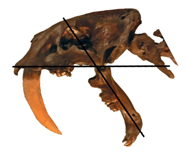 the machairodont smilodon fatalis with jaws set at 128 degrees, the maximum possible for this species